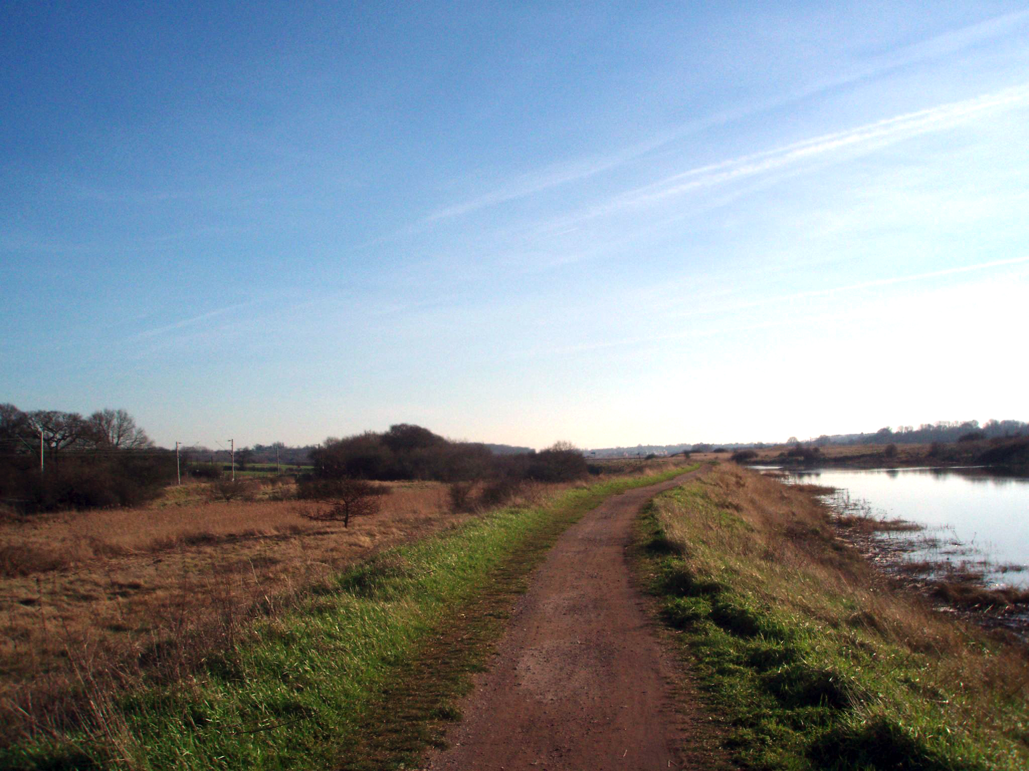 The River Colne between Colchester and Wivenhoe. The path represents part of National Cycle Network Route 51.